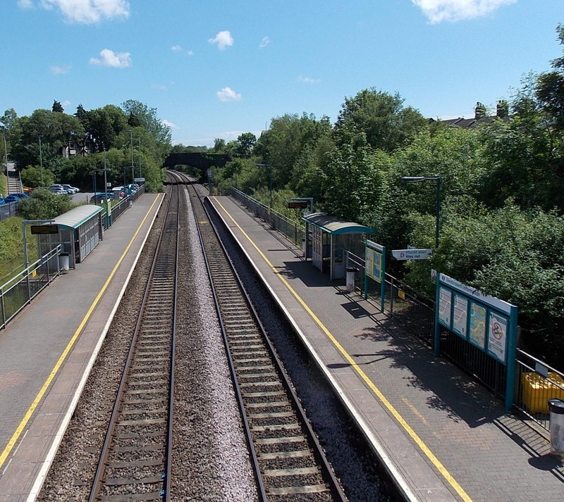 Pontyclun railway station. Viewed from the station footbridge looking towards the Cowbridge Road bridge. Pontyclun is an unstaffed minor railway station on the South Wales Main Line, between Llanharan station and Cardiff Central station.